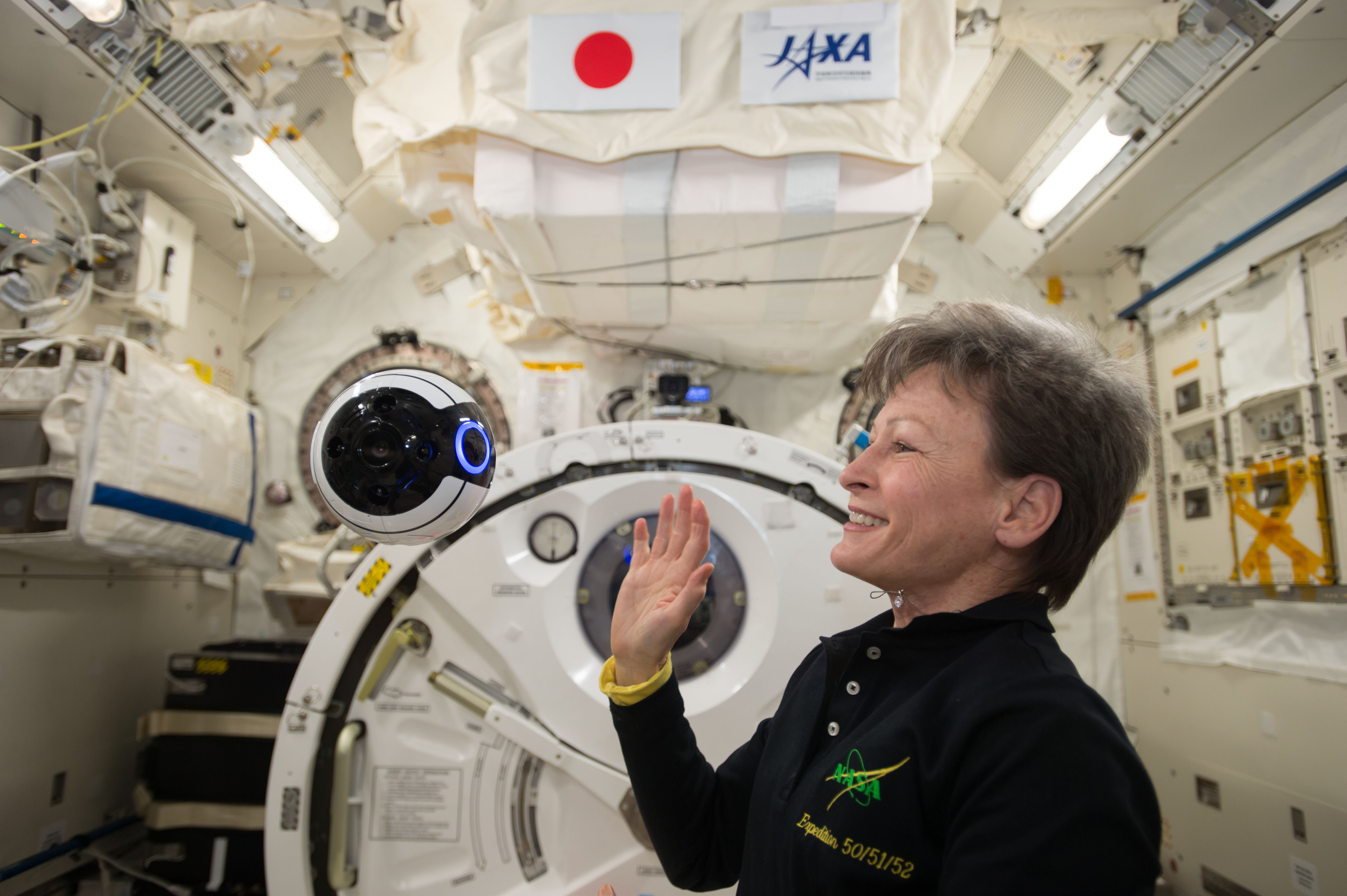 iss052e046674 (8/15/2020) --- A view of NASA astronaut Peggy Whitson aboard the International Space Station (ISS) with the Japanese Experiment Module (JEM) Internal Ball Camera. This device is a free-flying camera robot that provides real time video downlink and photographs. It is expected to reduce the crew time requirements to support video recording of activities, especially at the blind spot of existing JEM internal cameras.